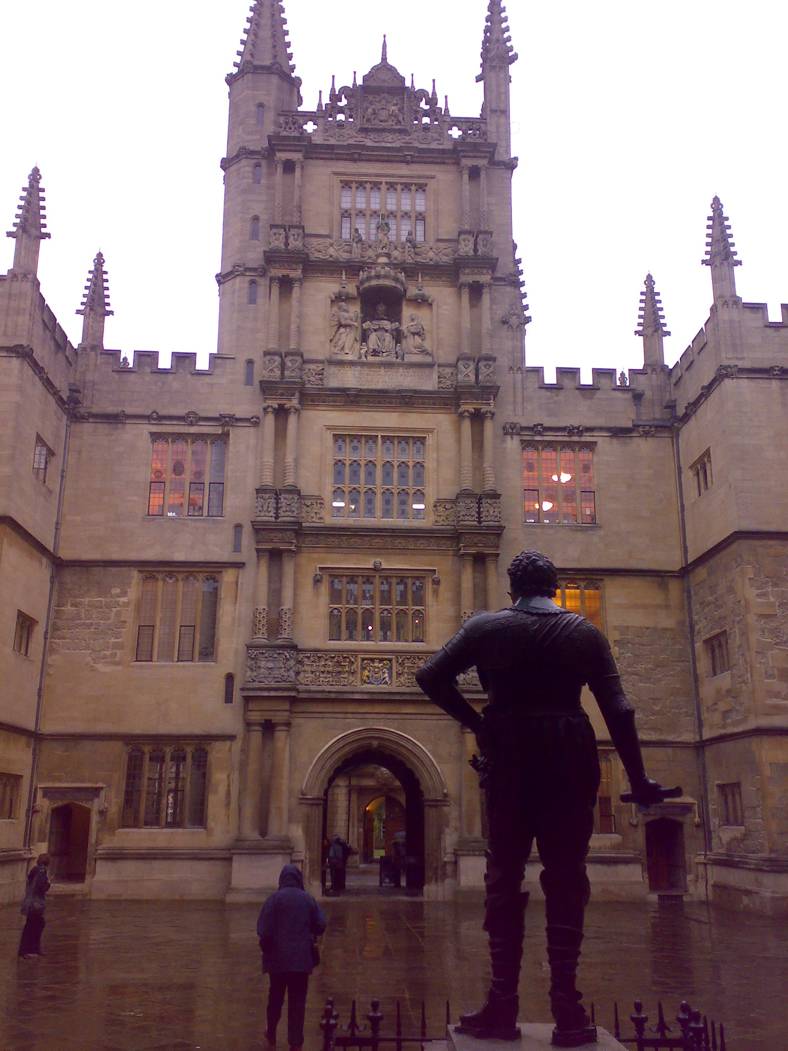 The Tower of the Five Orders, Bodelian Library, Oxford from the entrance to the Divinity School.